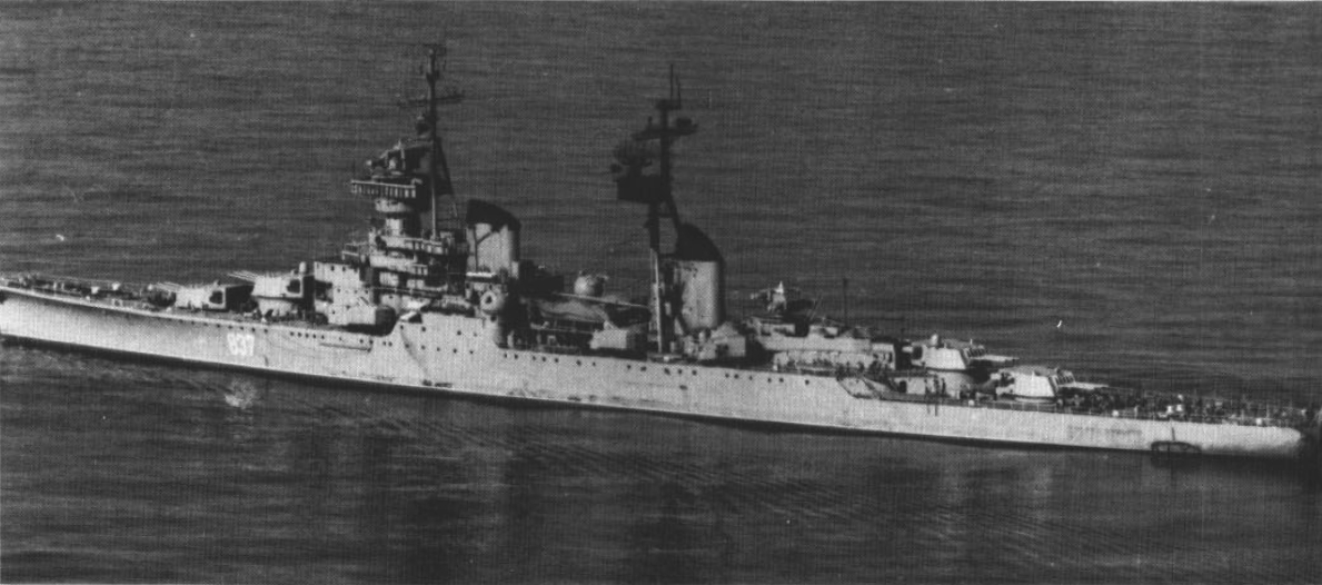 The Soviet Sverdlov-class cruiser Dmitry Pozharsky underway, circa 1974.